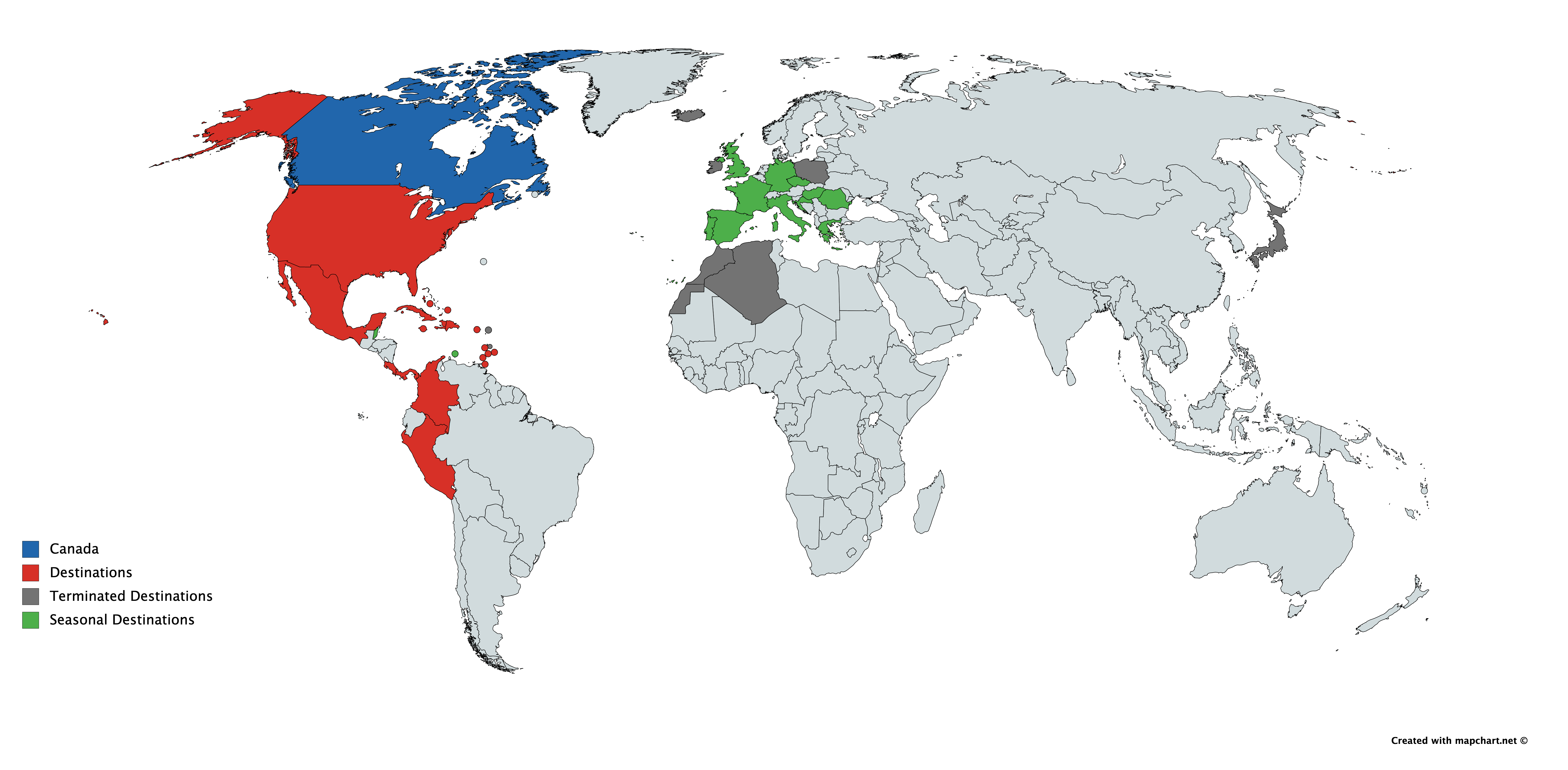 Rouge destinations feb. 26/19